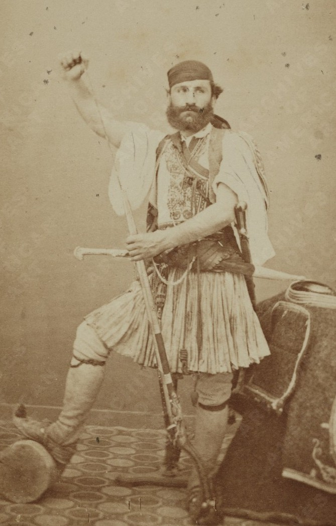 Carte De Viste of Lockwood De Forest in a Greek costume in Greece, ca. 1870s. Identification on verso reads: Lockwood de F. II in Greece. Cropped from the higher resolution version by the uploader.